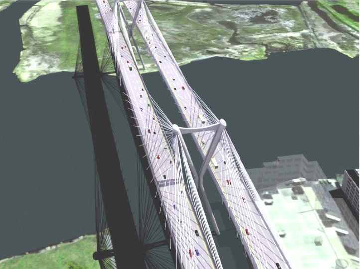 A conceptual 3D rendering for the replacement of the Goethals Bridge